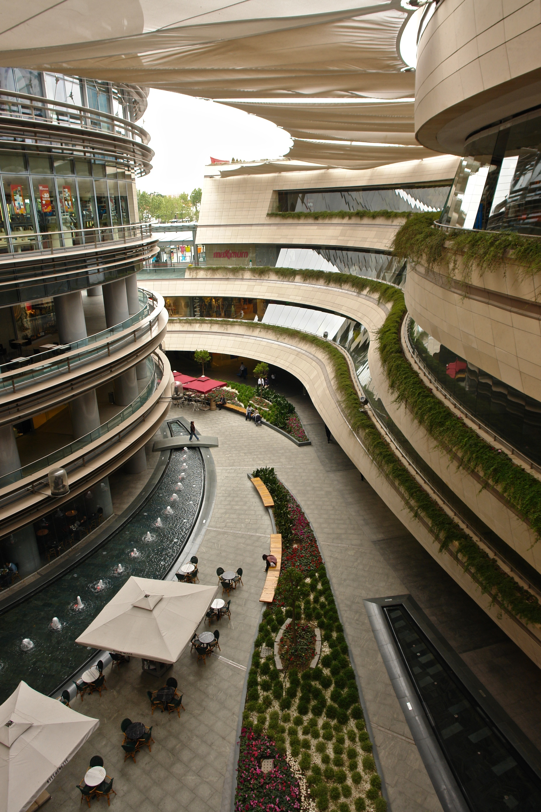 Kanyon is a multi-purpose complex in the Levent financial district of Istanbul, Turkey, which consists of a shopping mall, a 30-floor office tower (26 floors of which rise above Büyükdere Avenue level) and a 22-floor residential block.